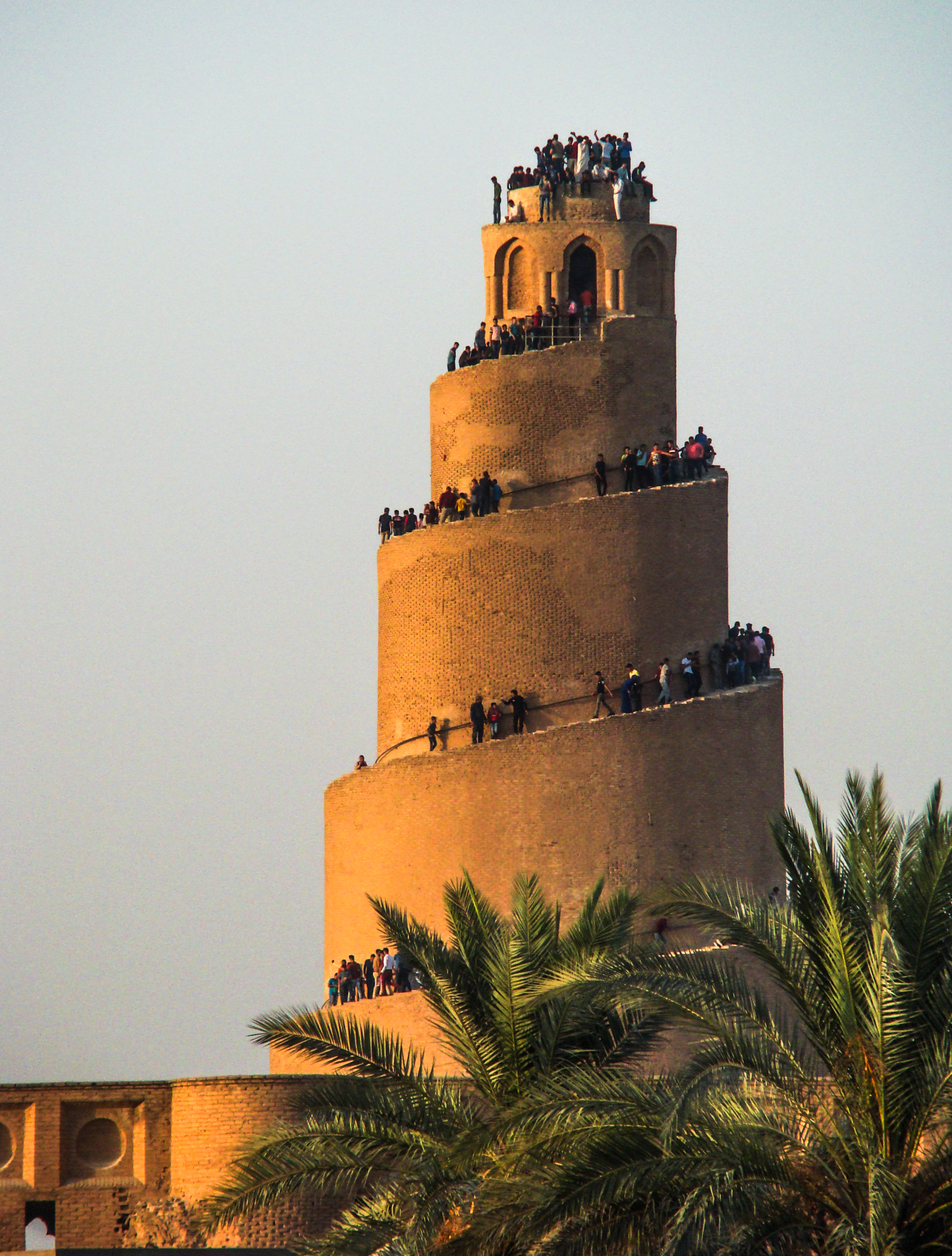 Inclination of the milieu of people celebrating holidays